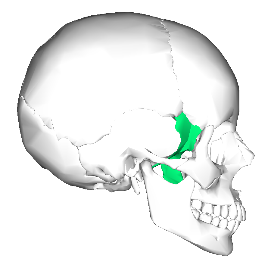 Sphenoid bone (shown in green).